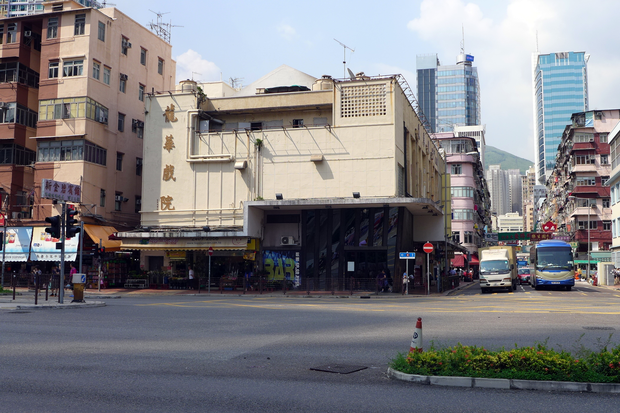 Lung Wah Theatre